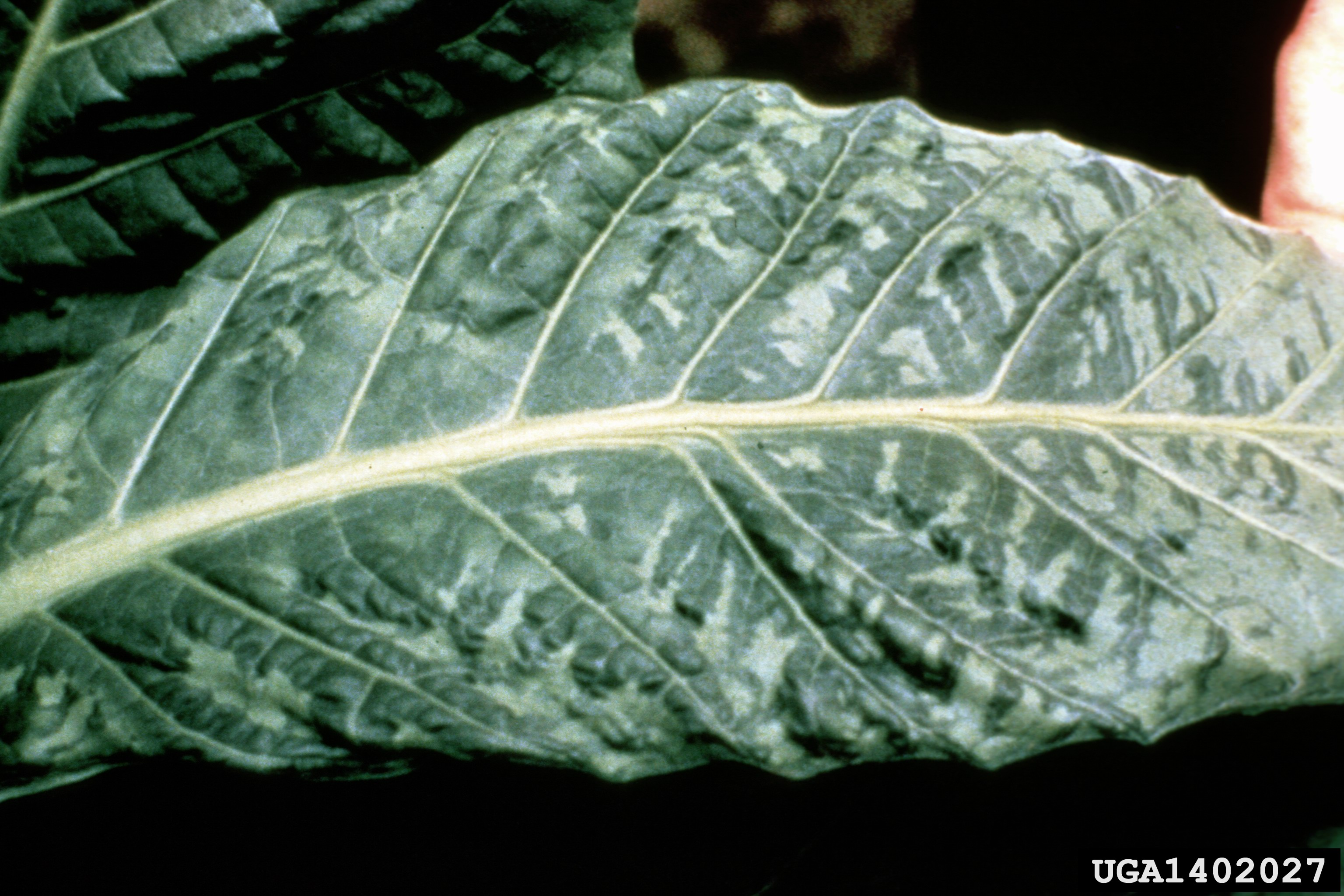 Photo of a tobacco leaf with symptoms of tobacco mosaic virus. UGA1402027